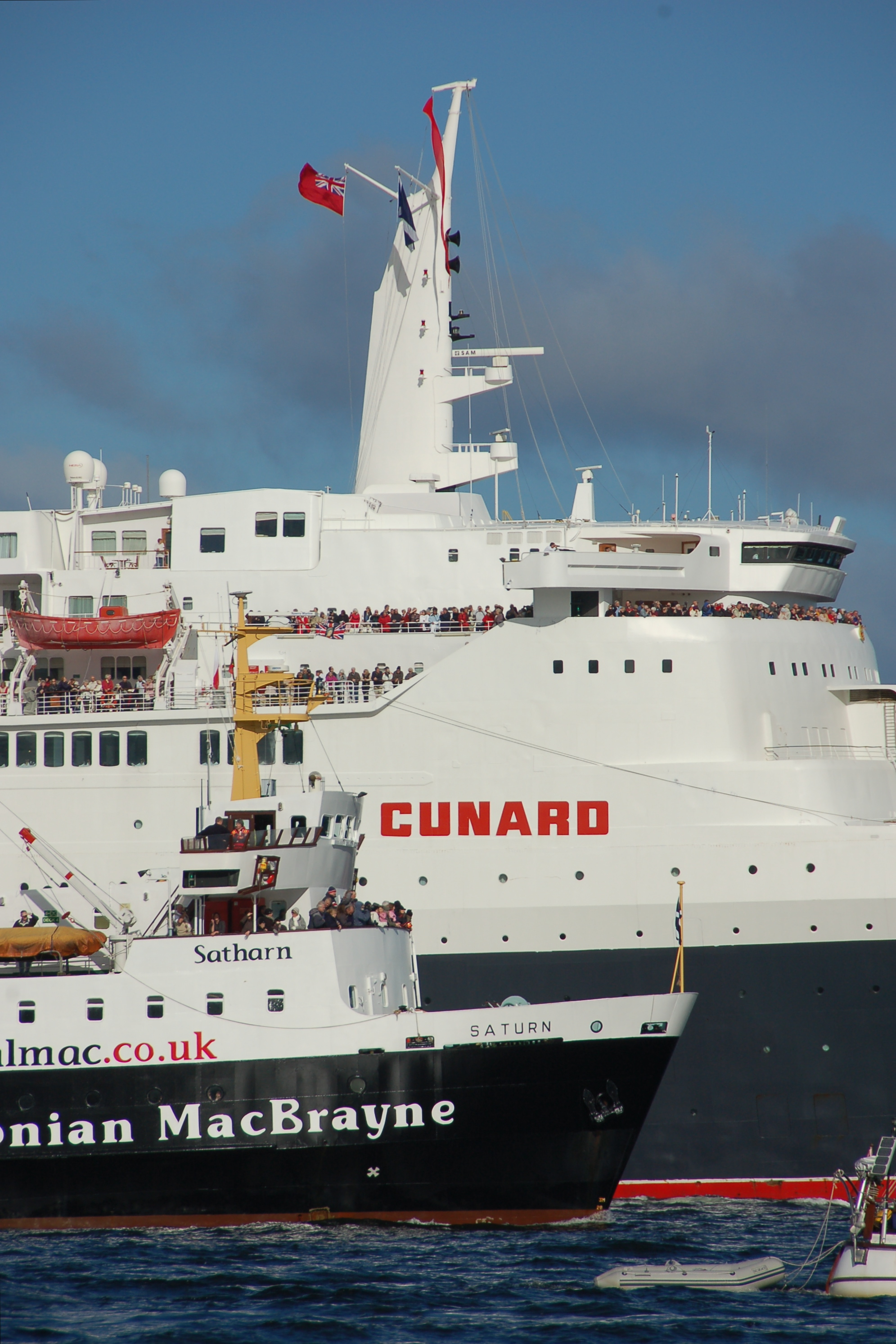 QE2 and Saturn